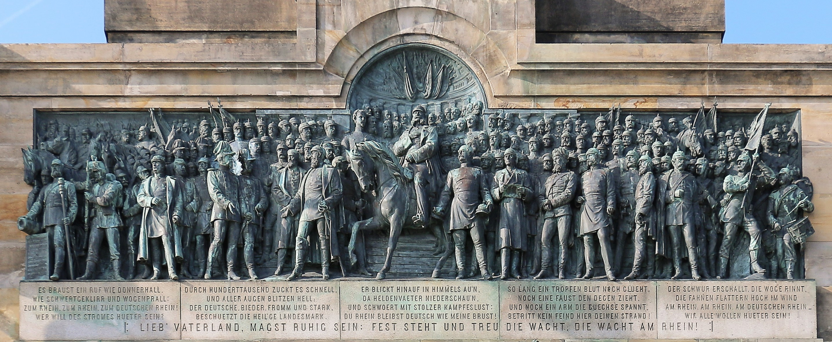 "Die Wacht am Rhein" Inscription and relief on the base of the Niederwalddenkmal is a monument located near Rüdesheim am Rhein